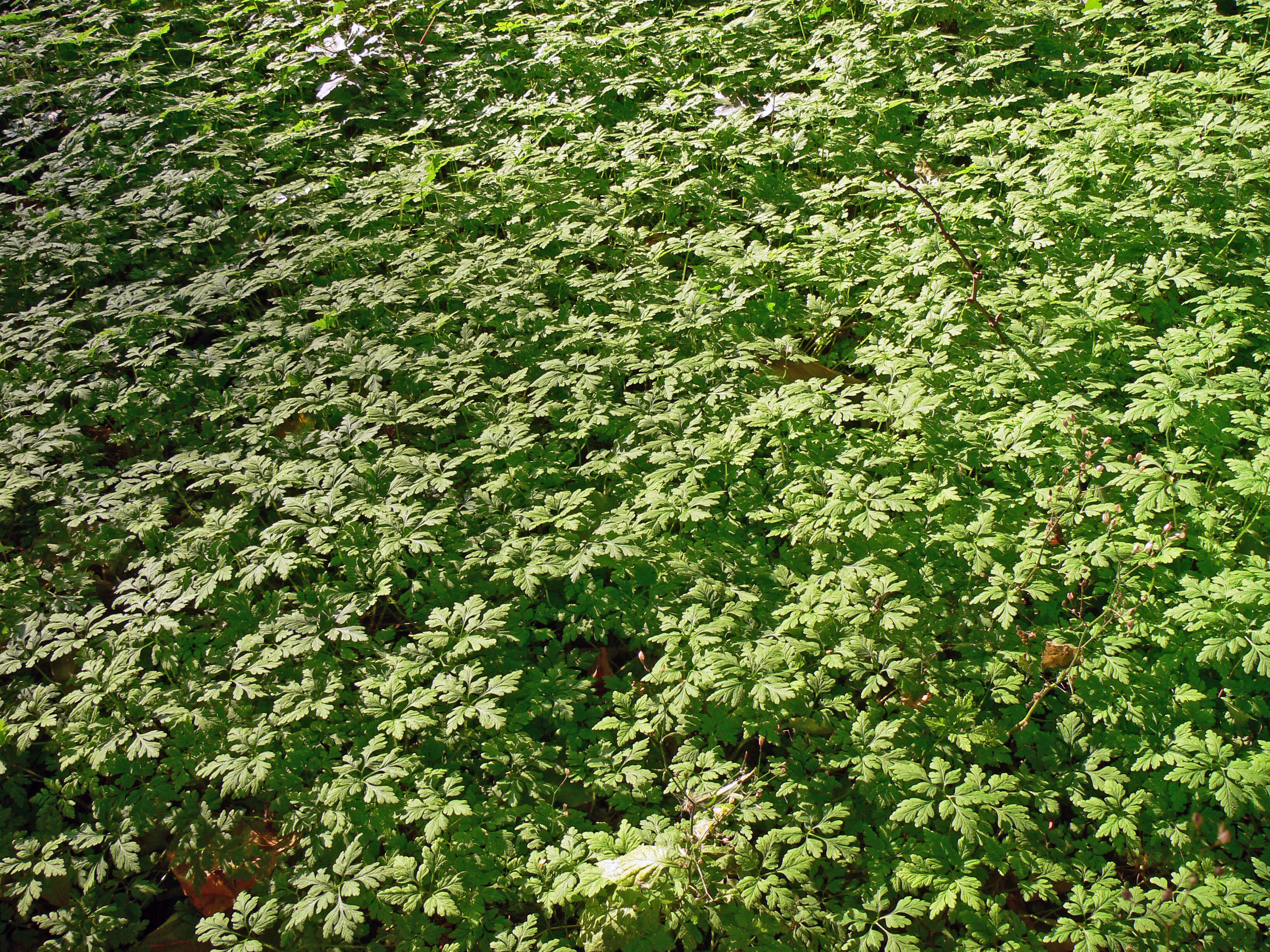 Geranium robertianum (Carpet geranium) - a plant of the genus Geranium and the family Geraniaceae. It is a common plant in temperate Europe. It is cultivated as an ornamental plant, often used as a perennial groundcover. Here, Carpet geranium is on a slope between a raised bike path and a road (bypass), in an area not frequented. A swath seen a year or less, under trees, in Lambersart (59, France). Taken: 1st September 2010.